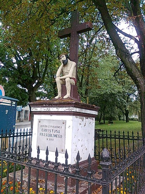 Poland, Ryki, Pensive Christ, 18. Century